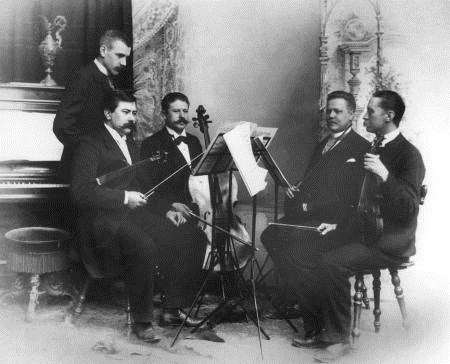 Swedish string quartet The Aulin Quartet (Aulinkvartetten), with Swedish composer Wilhelms Stenhammar (standing)